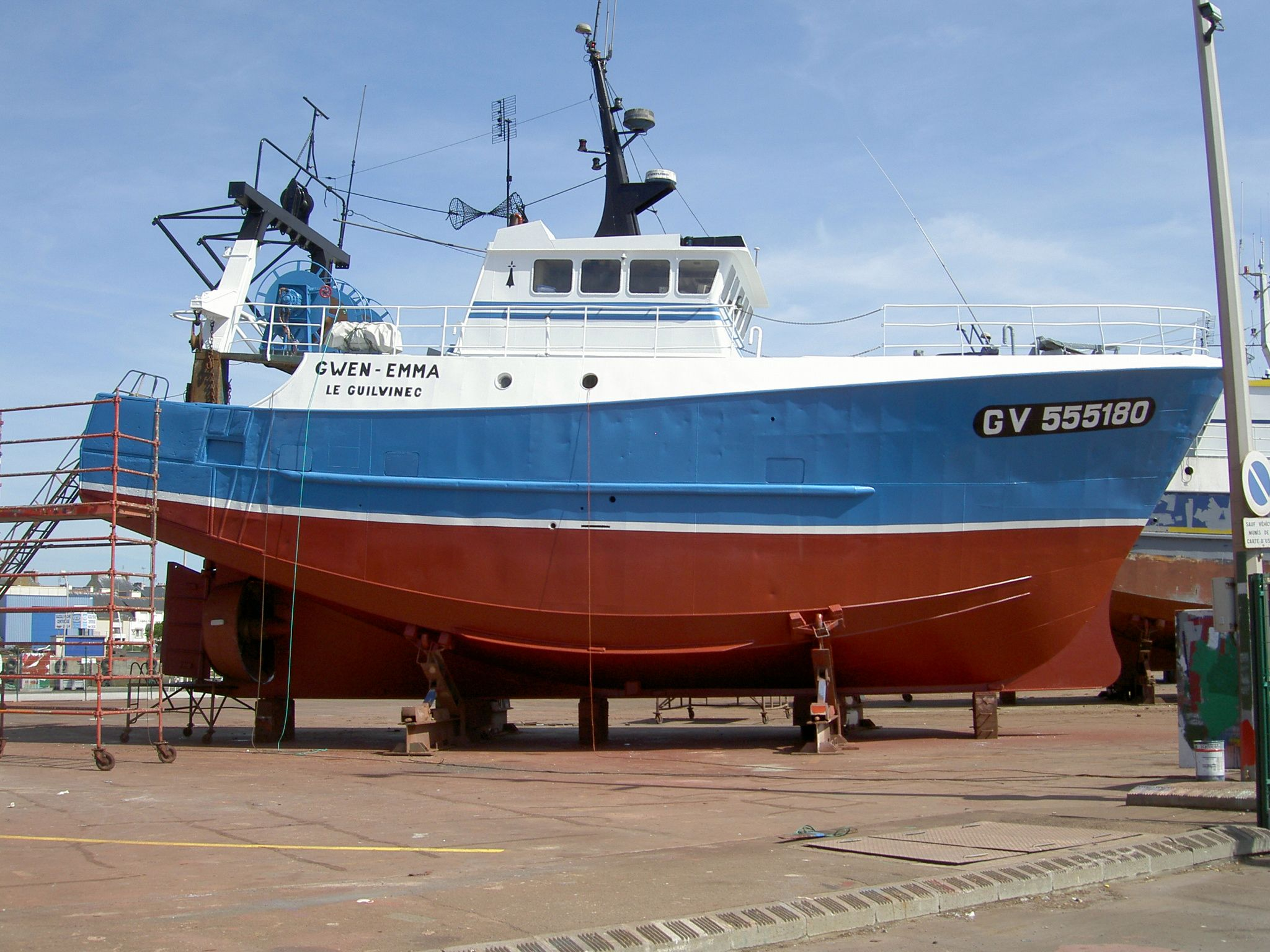 Maintenance of a trawler (Treffiagat, France).